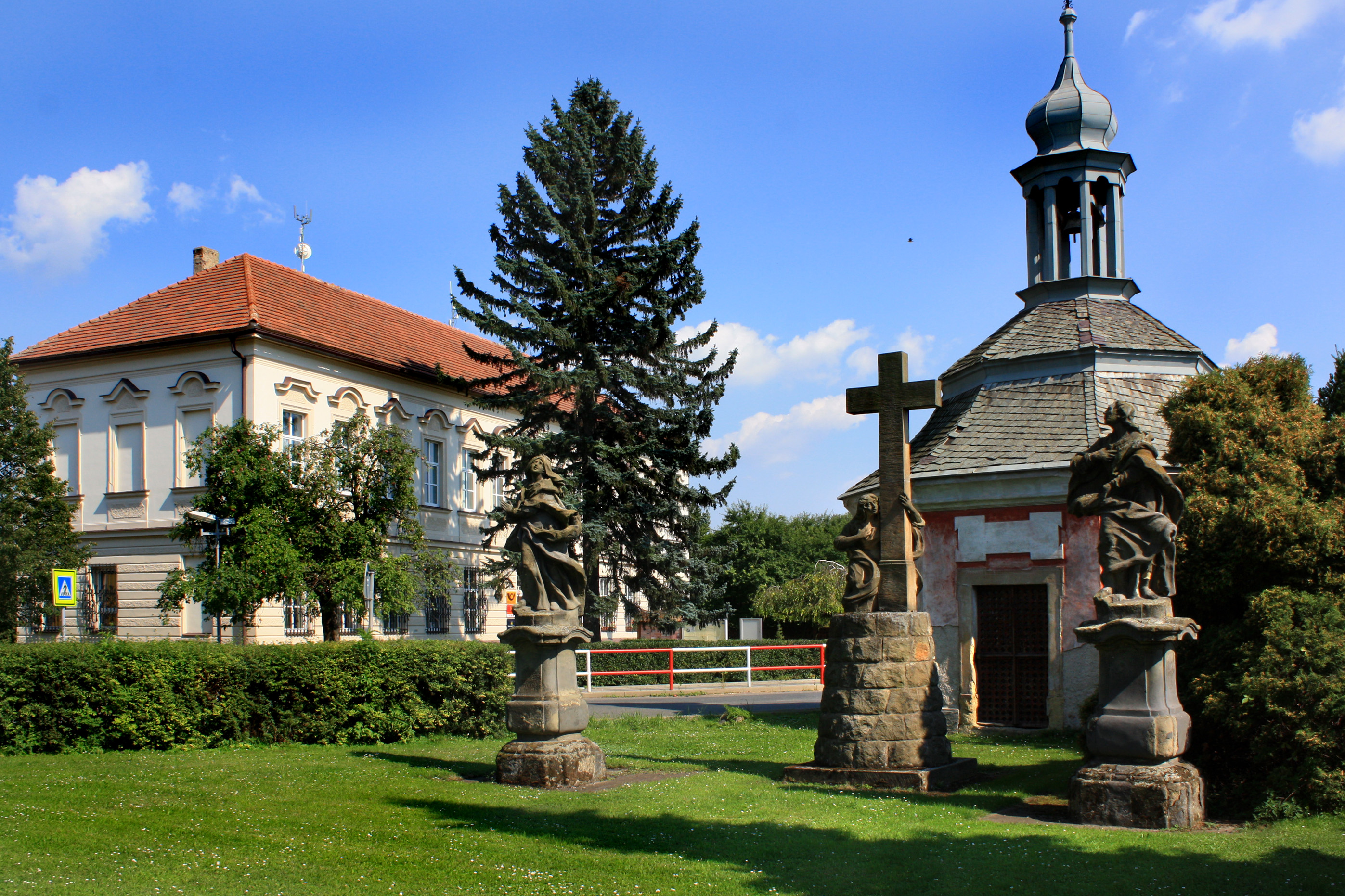 Statues and a chapel by church in Bezno, Czech Republic